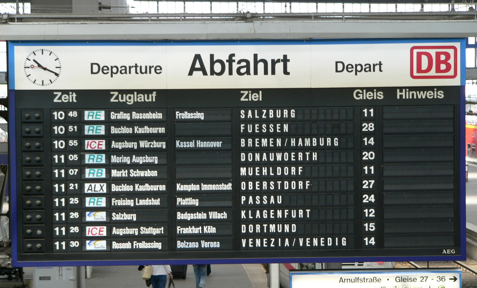 Split-flap display in the main station of München (Munich), Germany